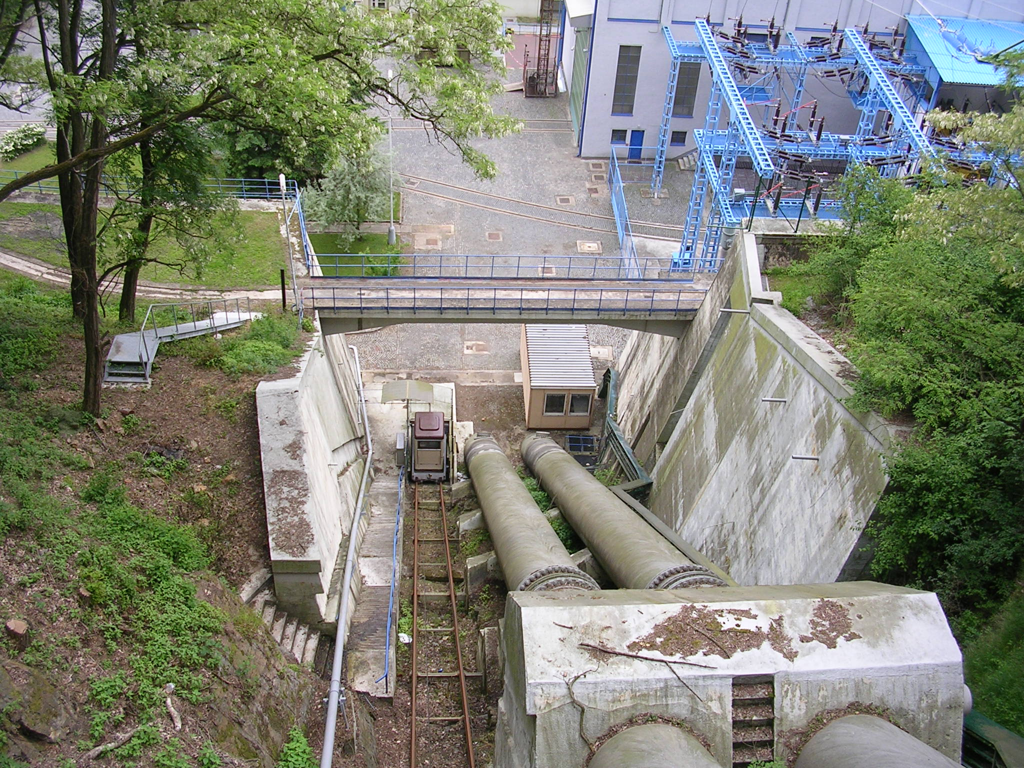 Štěchovice, Prague West District, Central Bohemian Region, the Czech Republic. A service funicular and a pipeline. - Google Maps - Google Earth